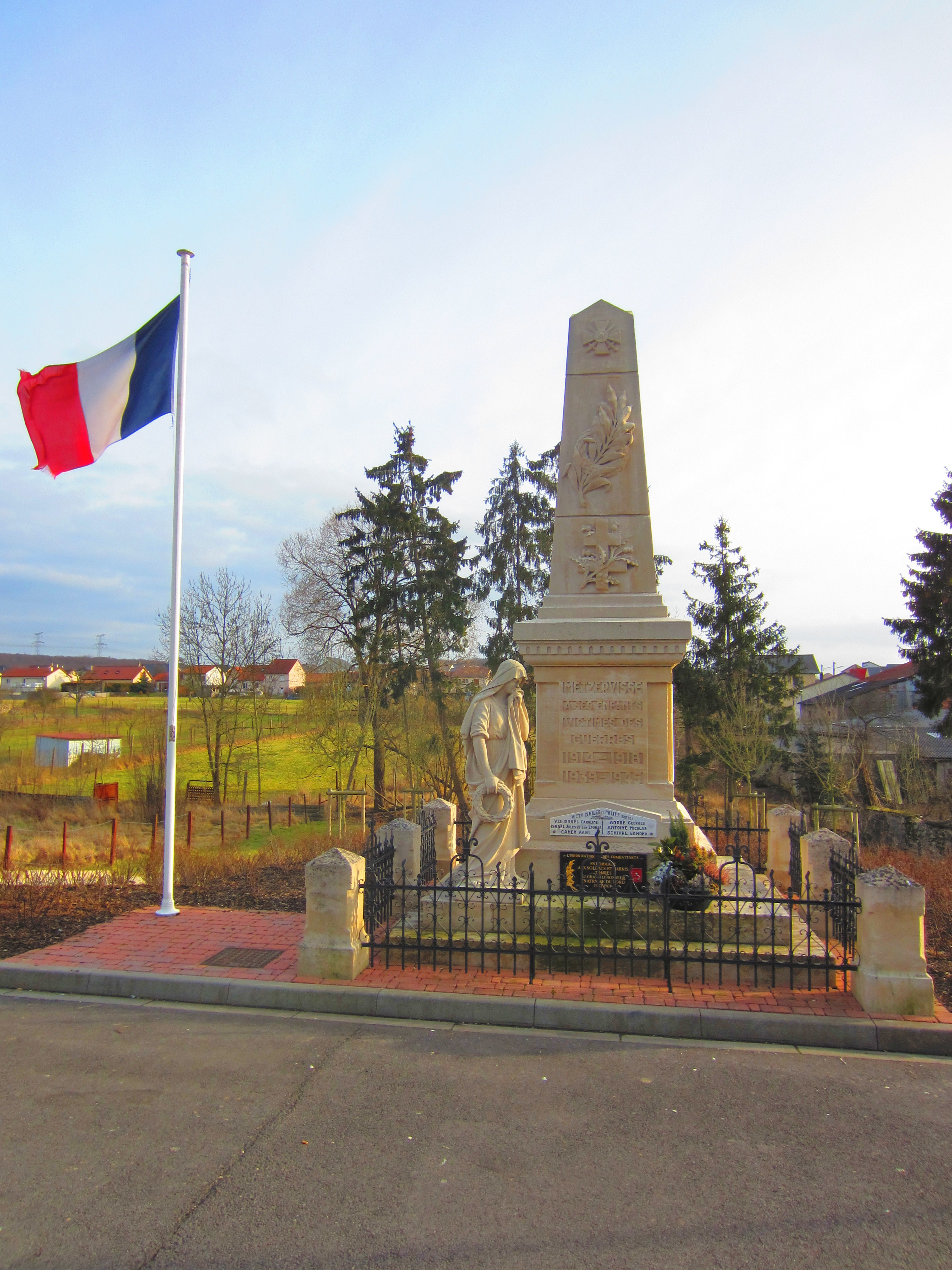 Monument Metzervisse